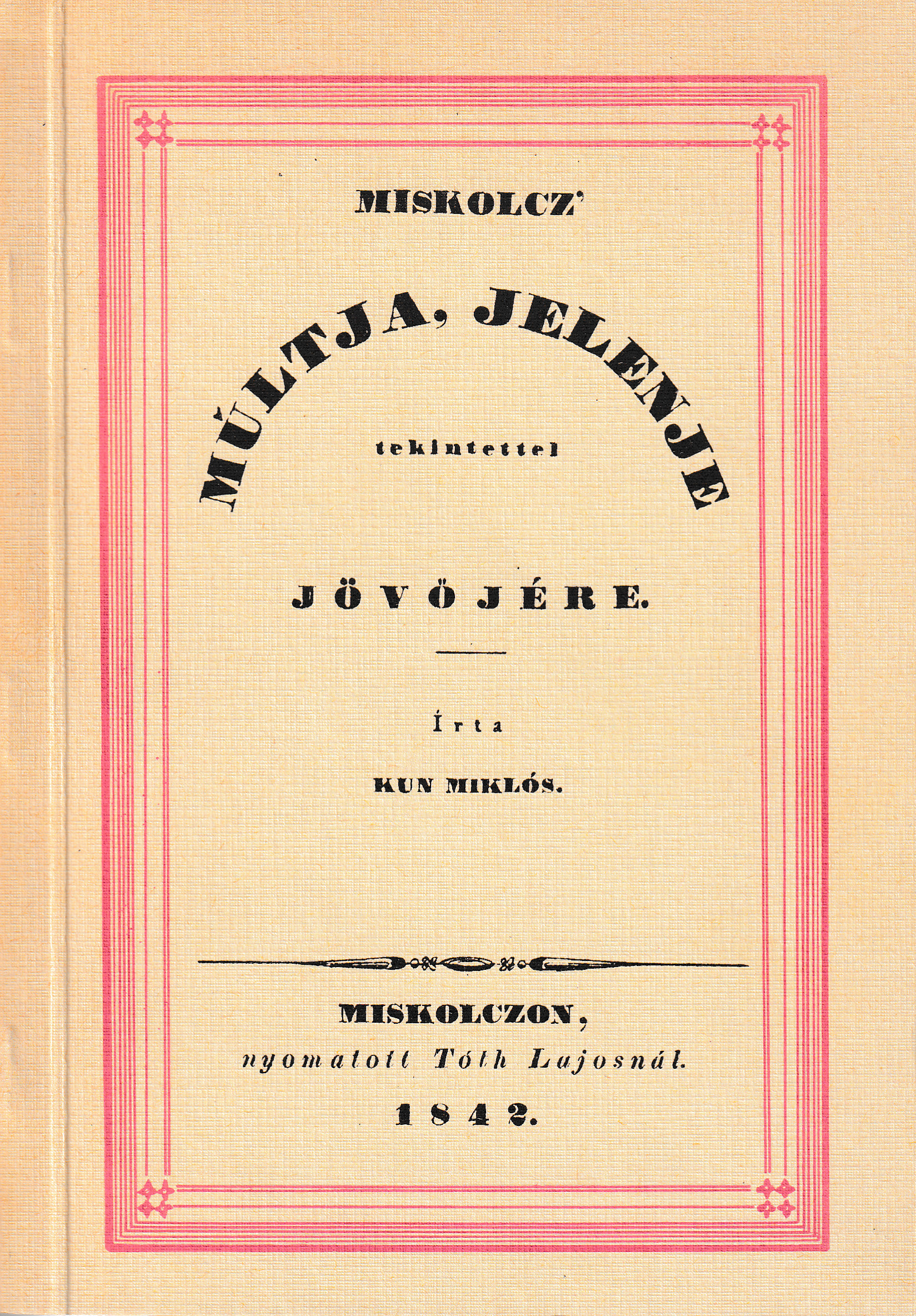 Book of Miklós Kun, Title page. 1842